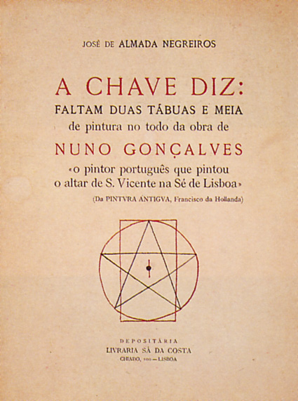 Almada Negreiros, A chave diz... (book cover), 1950